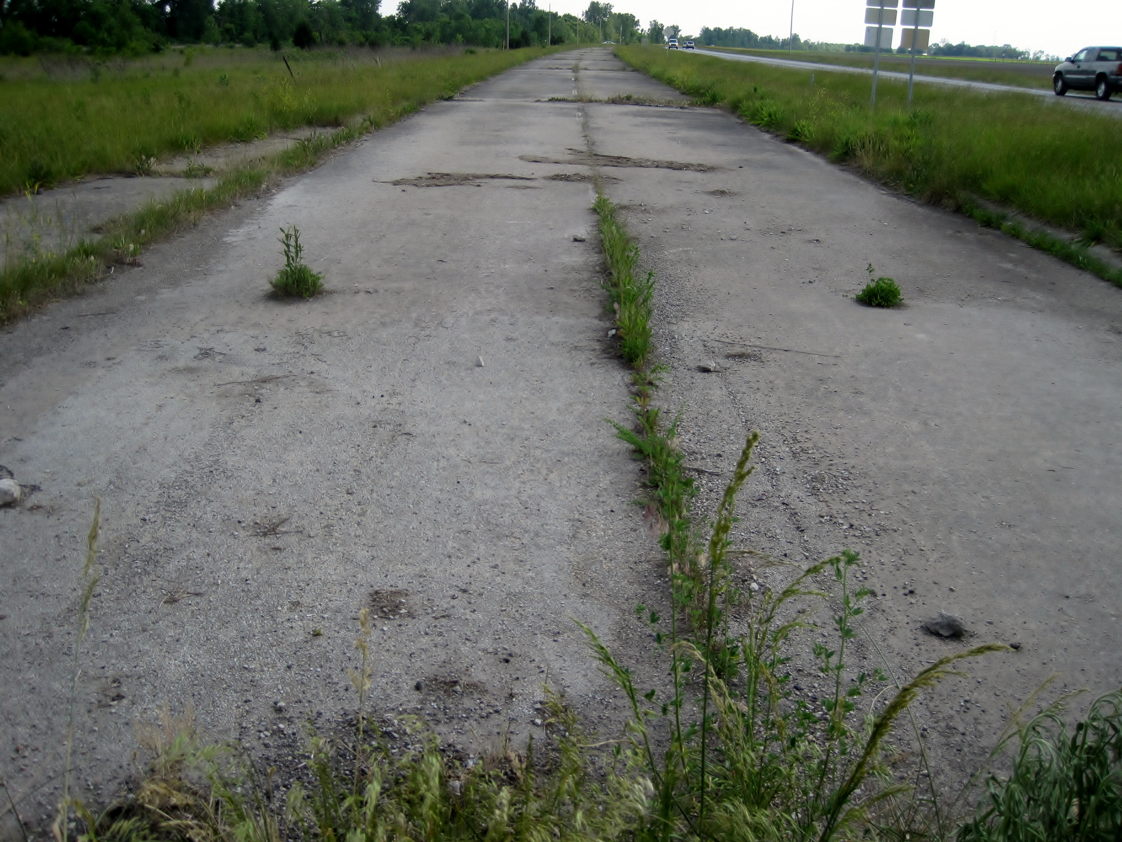 Route 66, Litchfield to Mount Olive